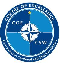 New LOGO of COE CSW.